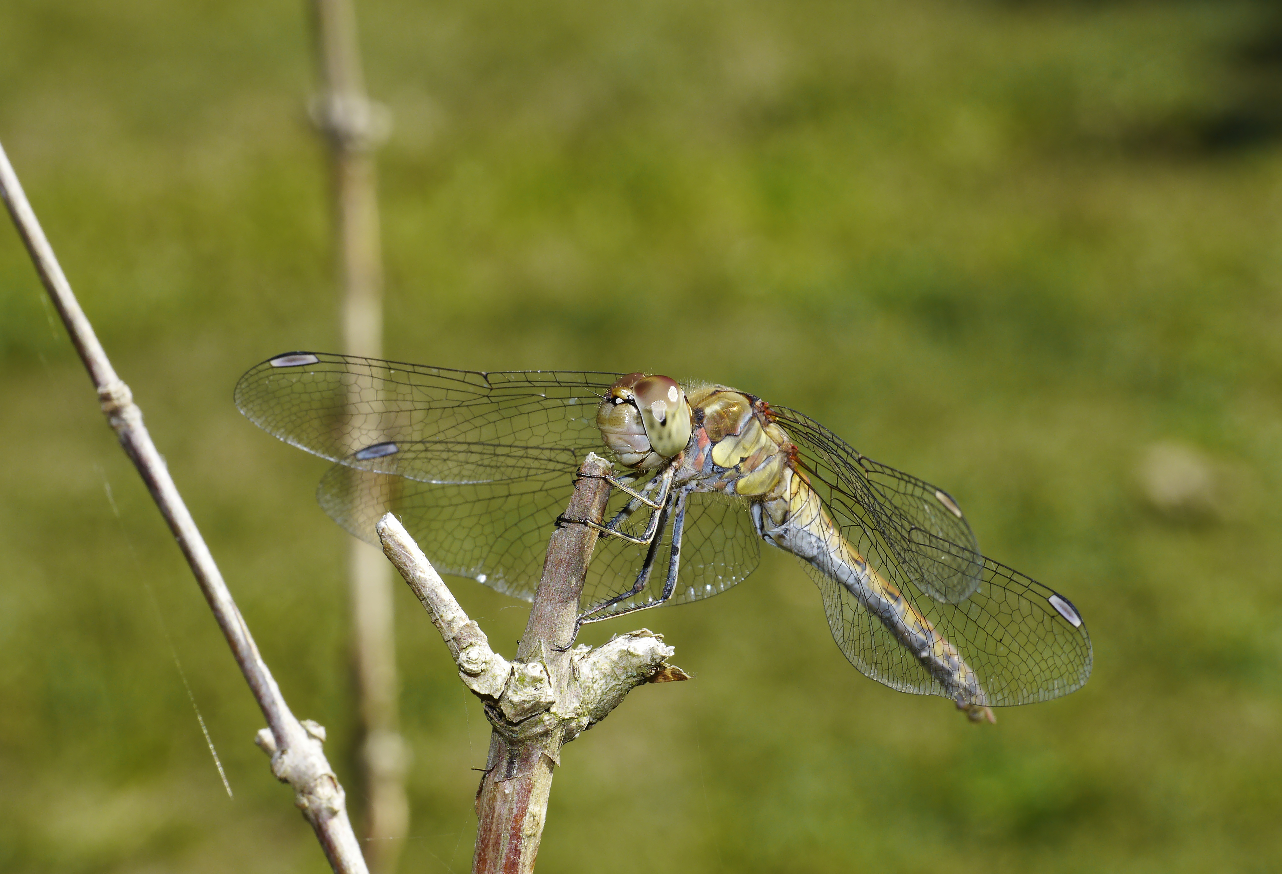 Common darter (Sympetrum striolatum). Recorded near Vogelstang See in Mannheim, Baden-Württemberg, Germany.